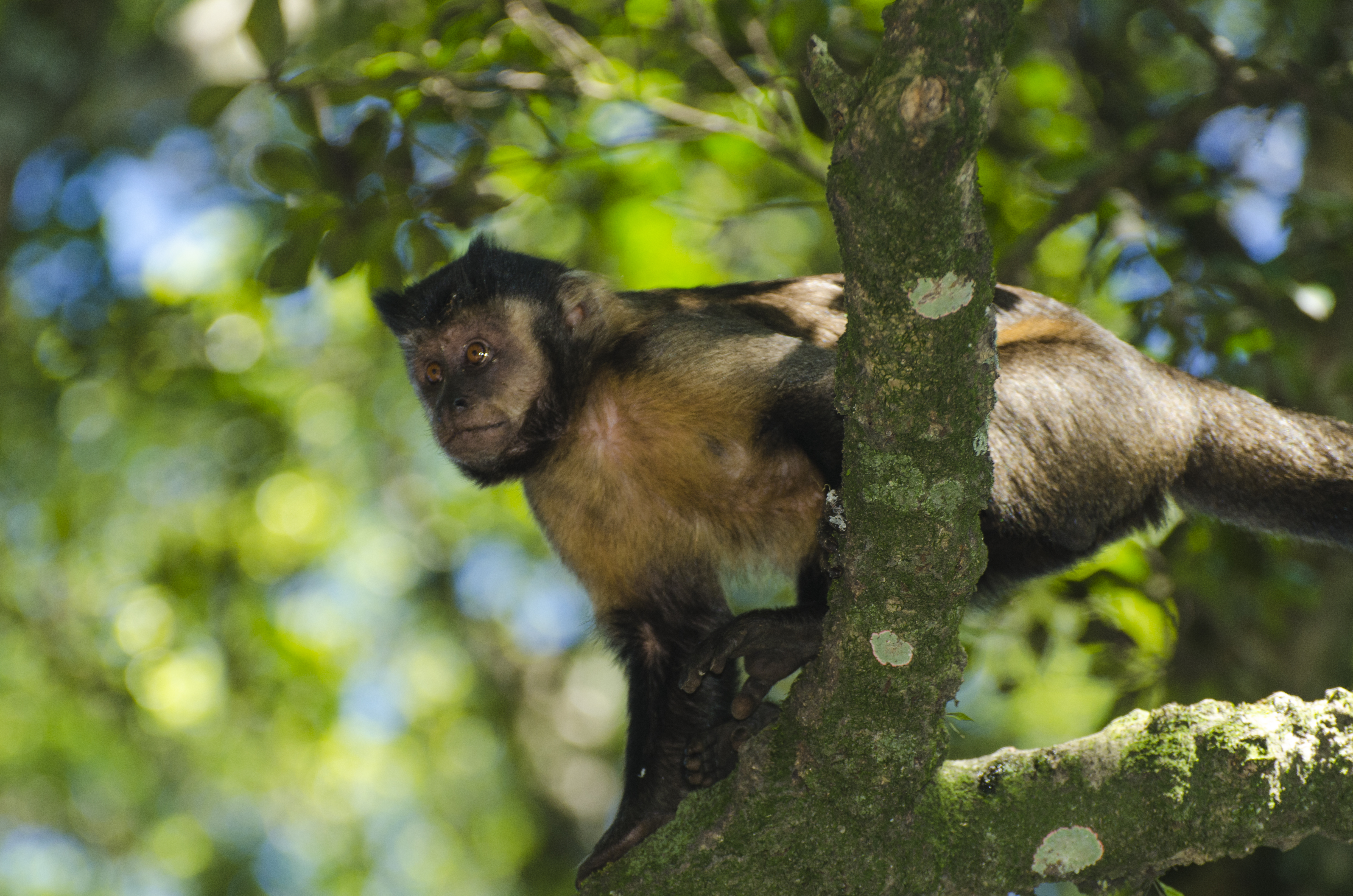 Monkey at Tijuca Forest. Rio de Janeiro, Brazil.